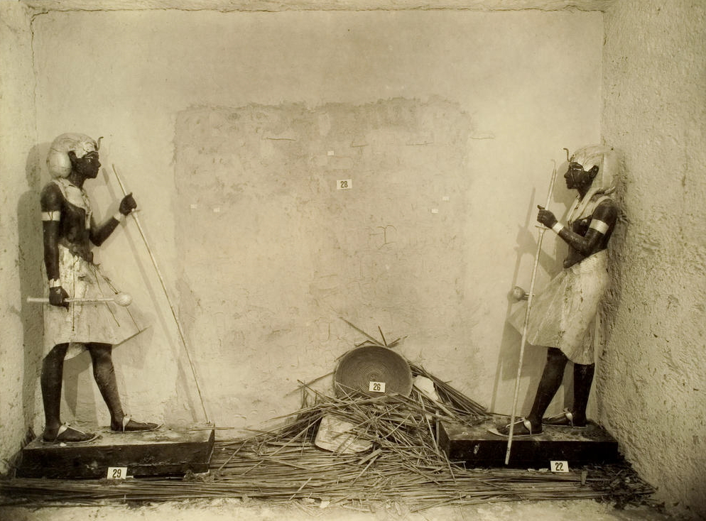 Harry Burton: Tutankhamun tomb photographs: a photographic record in 5 albums containing 490 original photographic prints ; representing the excavations of the tomb of Tutankhamun and its contents. Vol. 4